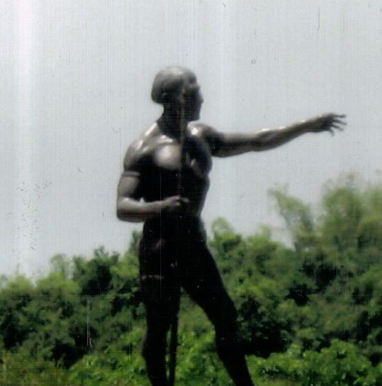 Different view of the Statue of the Cacique Jumacao in the city of Humacao, Puerto Rico